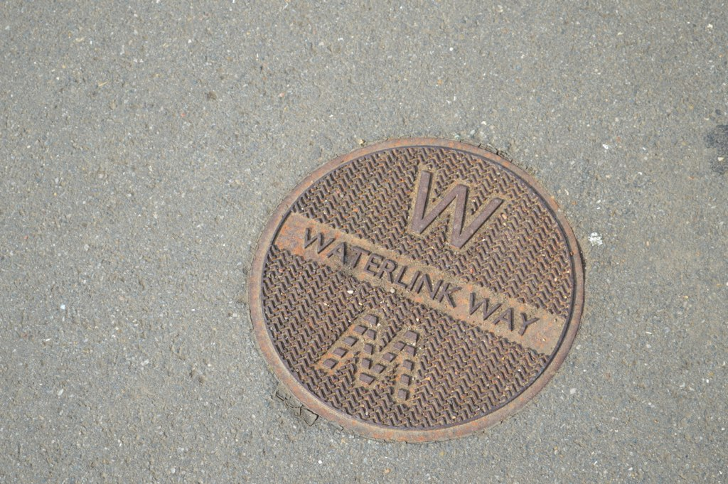 Waterlink Way pavement marker